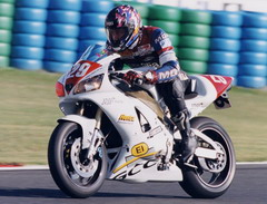 Alain Duchosal - Bol d'Or 2000